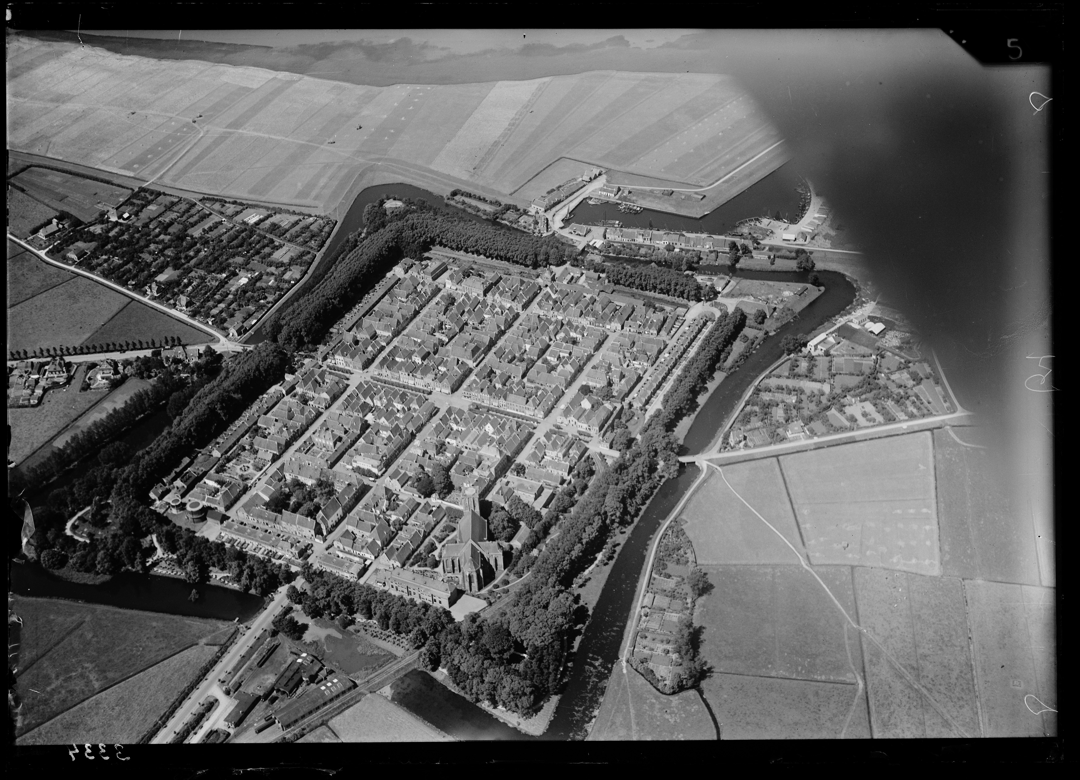 Aerial photograph of Elburg, The Netherlands